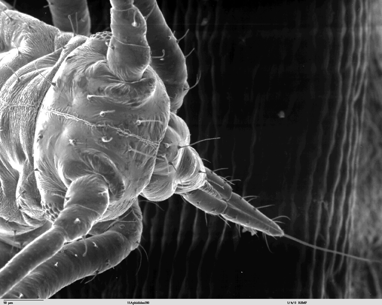 Head and mouthparts of Aphidoidea